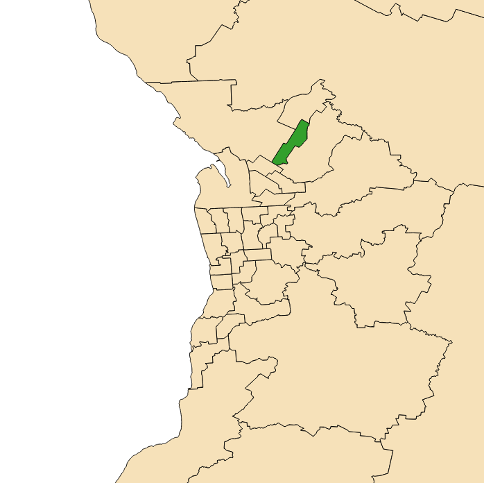 Electoral district 2018 boundaries shown in green